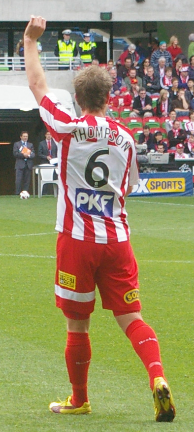 Australian football player Matt Thompson, playing for Melbourne Heart